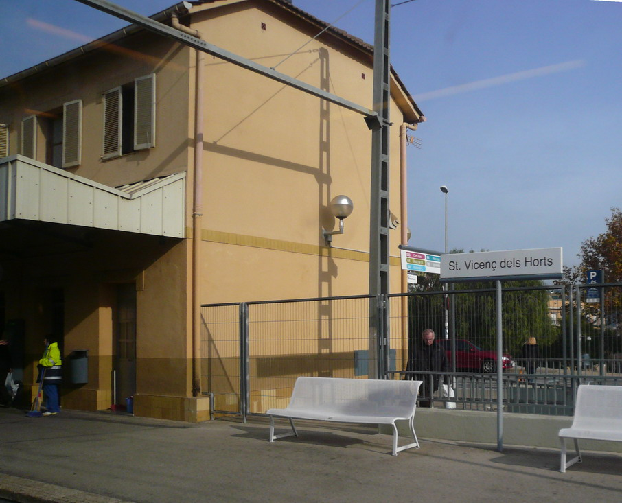 Sant Vicenç dels Horts station.